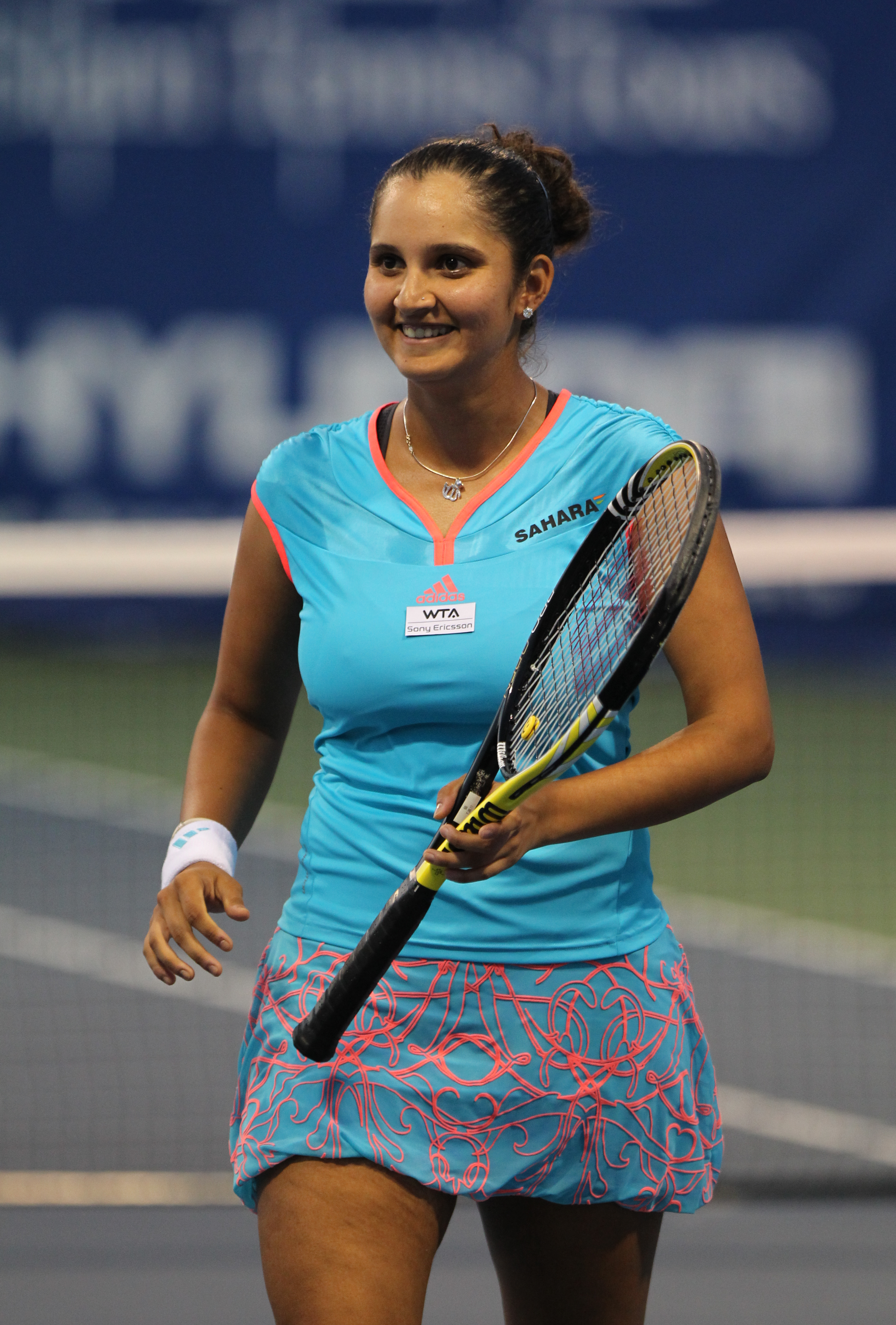 Citi Open Tennis July 30, 2011